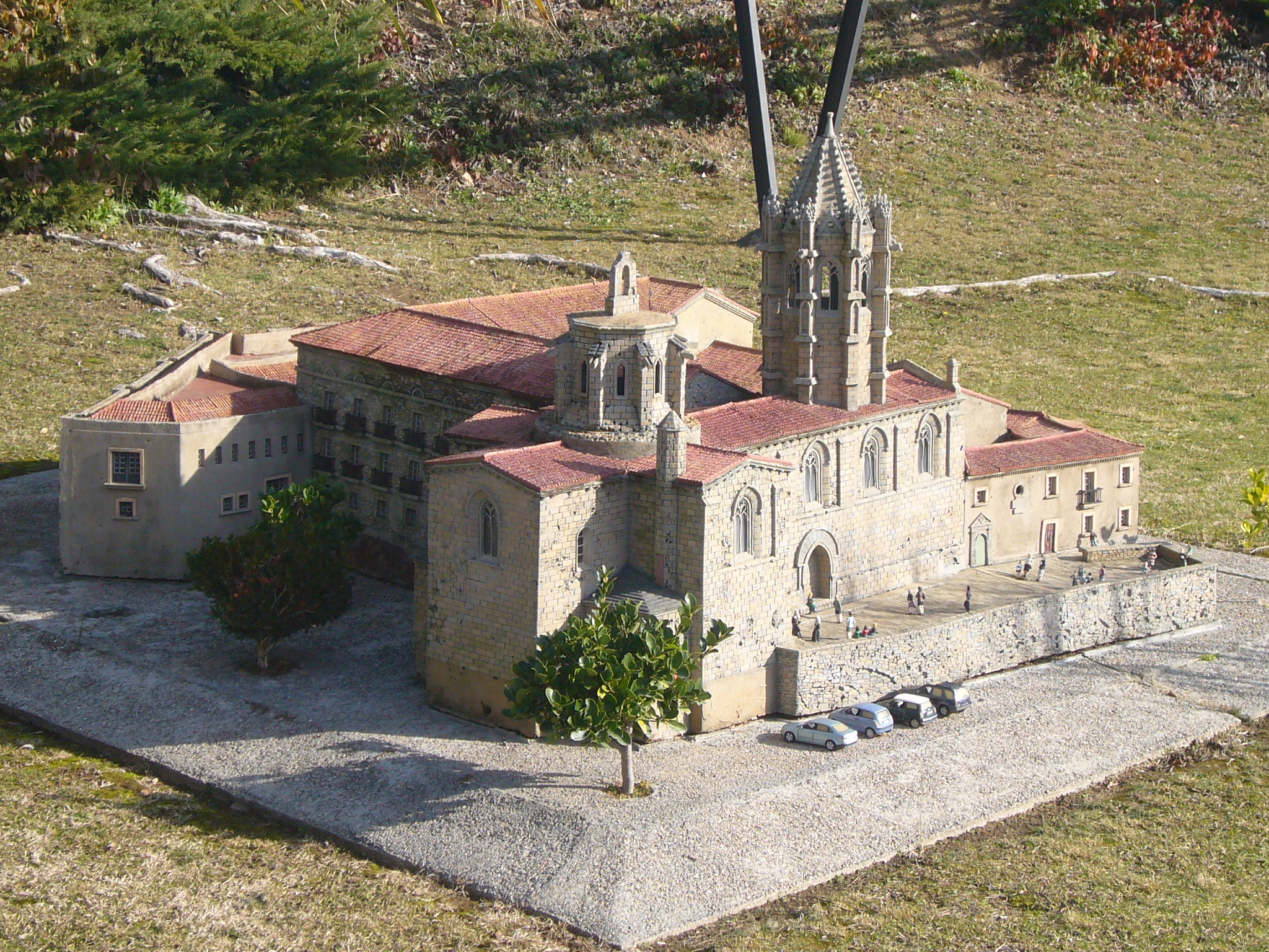 Scale model at the "Catalunya en Miniatura" miniature park : Monastery of Vallbona de les Monges